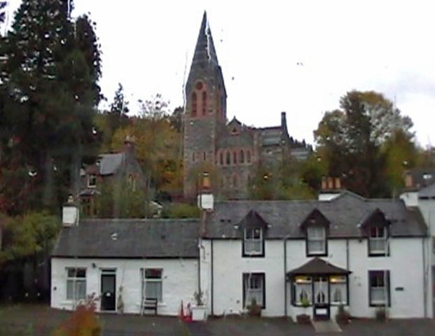 Rainy Day In Strathpeffer The village centre with the church behind.